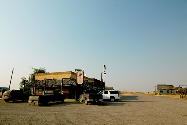 Looking north along the main street of Ingomar